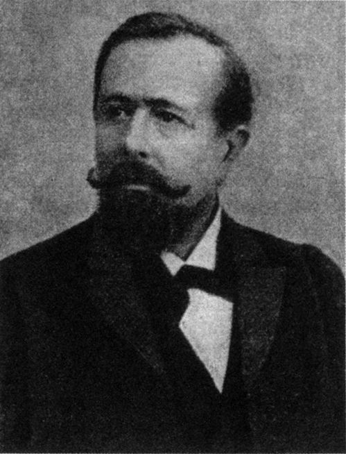 Lajos Borbély (1843–1923) metallurgical engineer, up to 1913